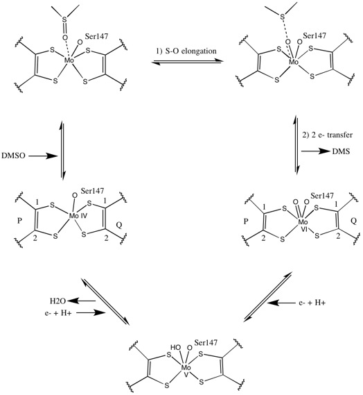 I made this using ChemBioDraw